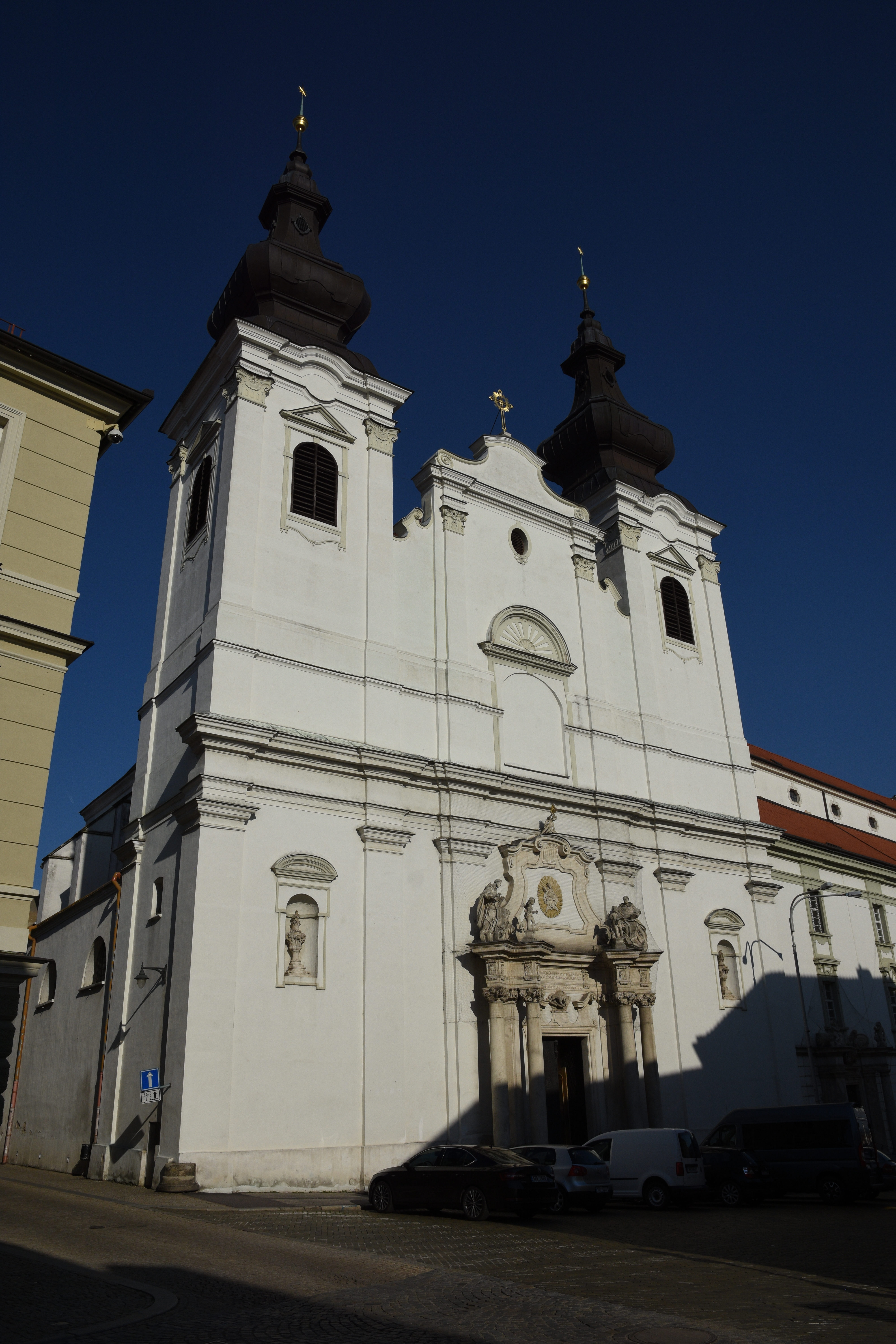 Church of the Finding of the True Cross (Znojmo)